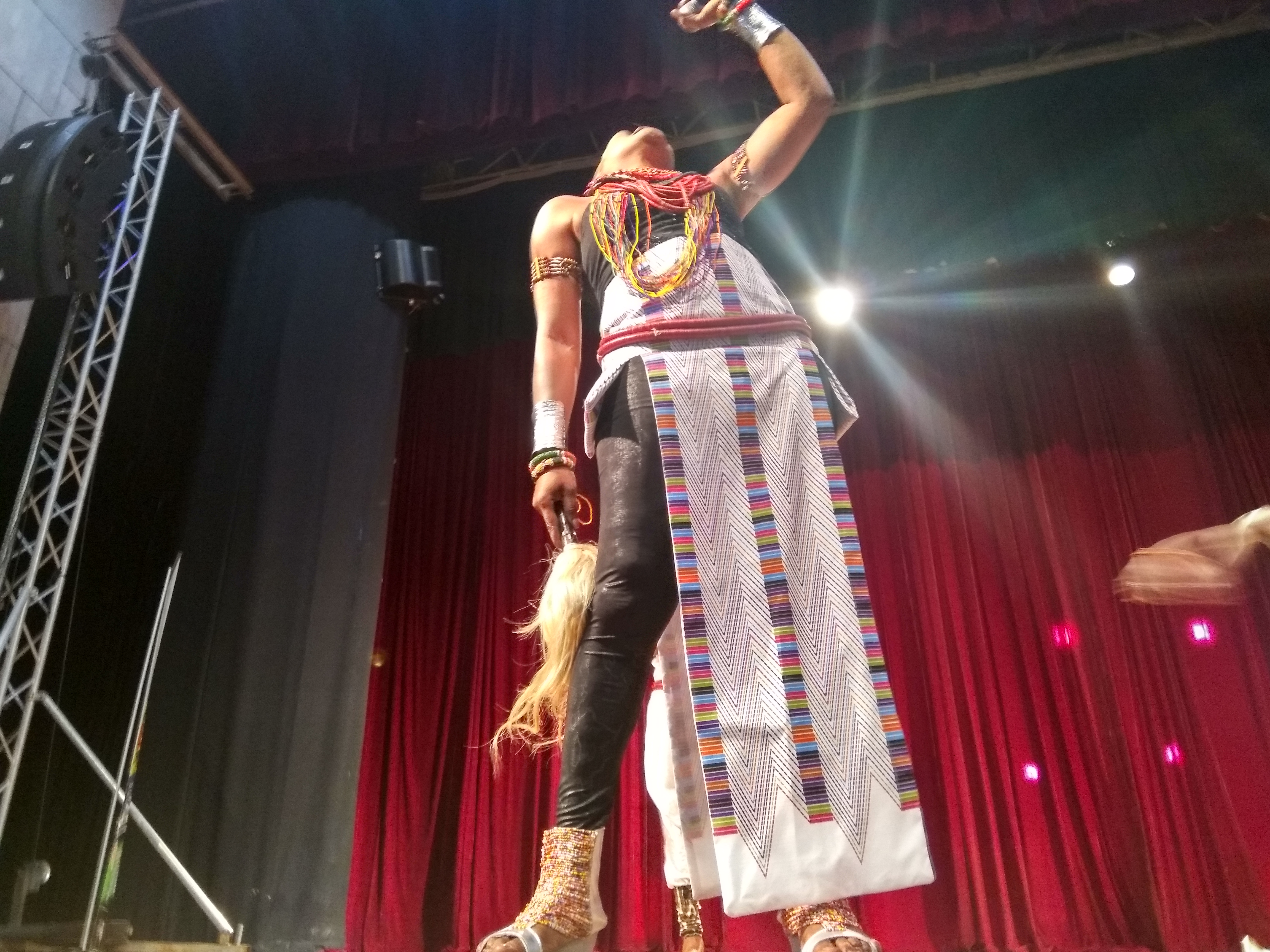 Sherifa Gunu performance at the national theater.